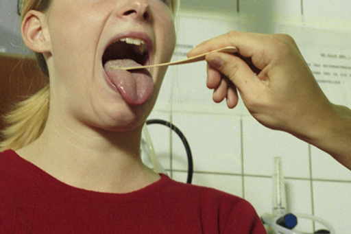 Examination of the throat